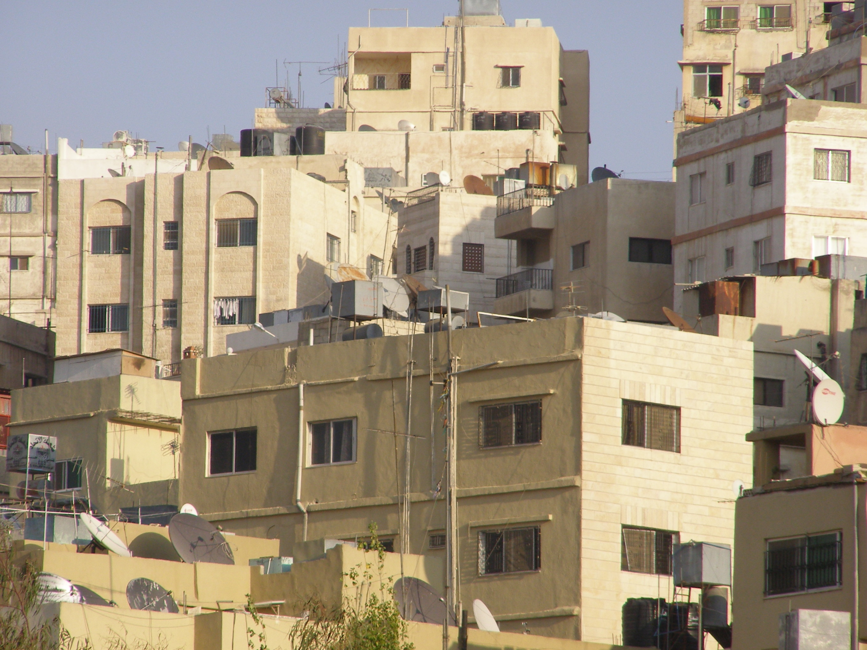 East Amman